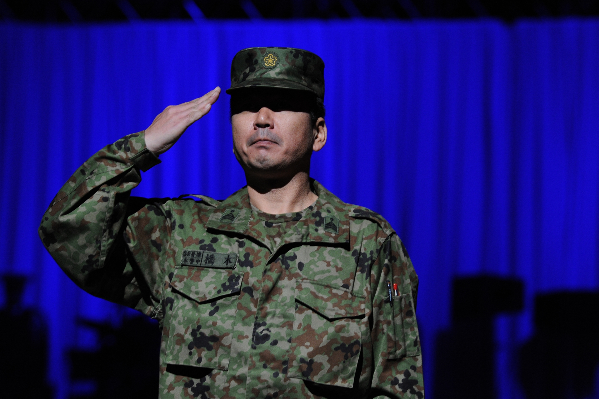 Title 音楽まつり支援隊_R.JPG Album 自衛隊音楽まつり 平成２４年度自衛隊音楽まつり 第四章「夢」